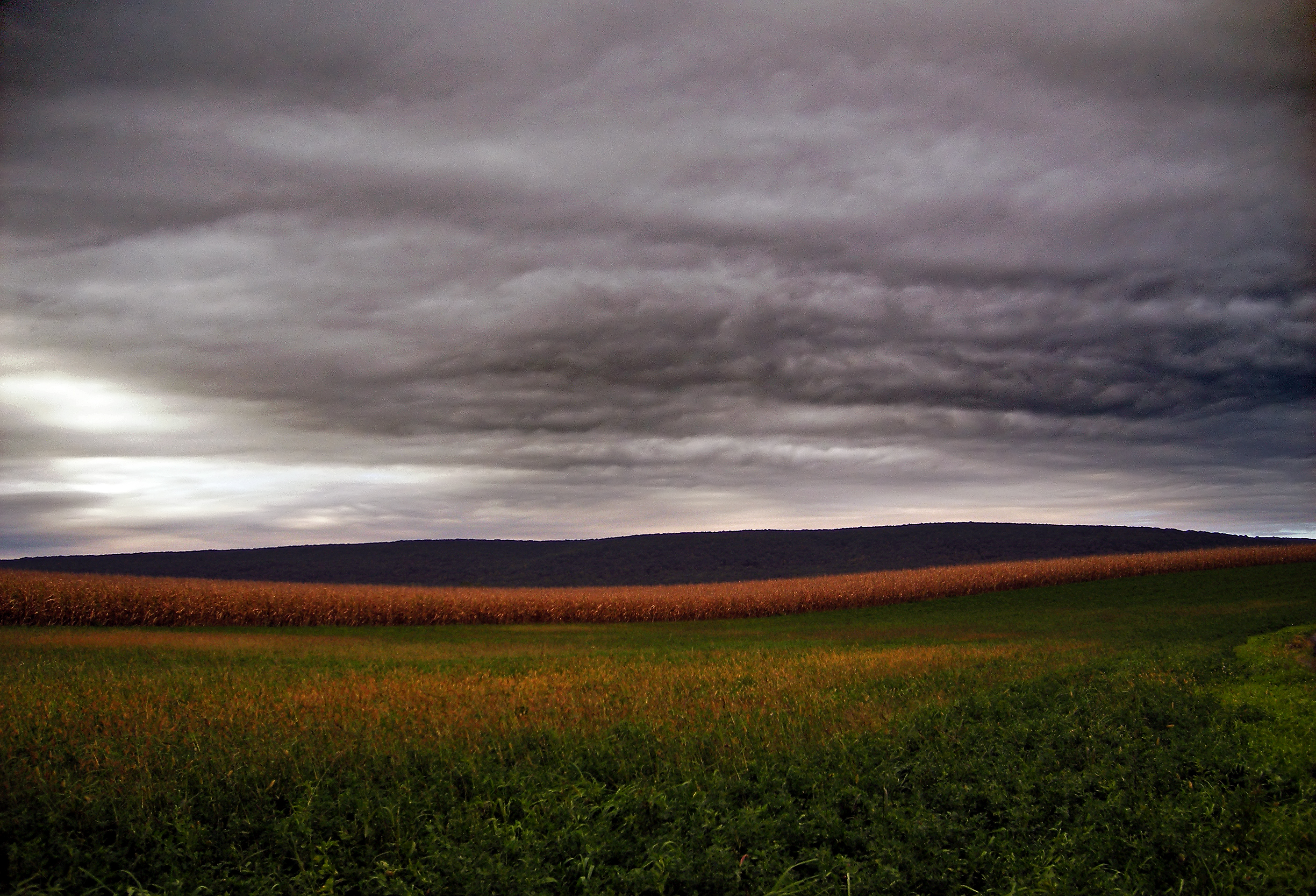 Field and overcast sky, Windsor Township, Berks County. In the distance is Blue Mountain.